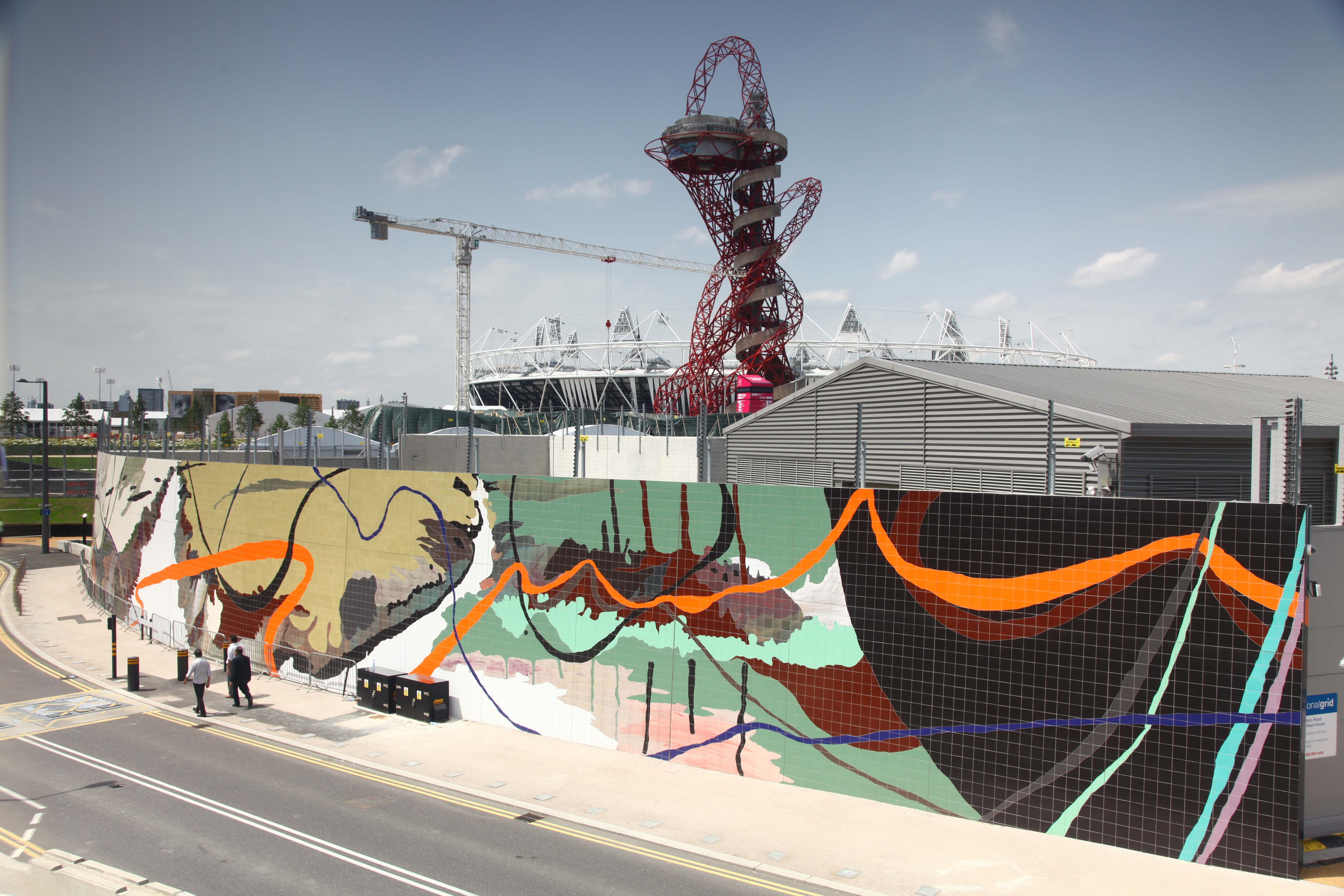 Clare Woods 'Carpenters Curve'